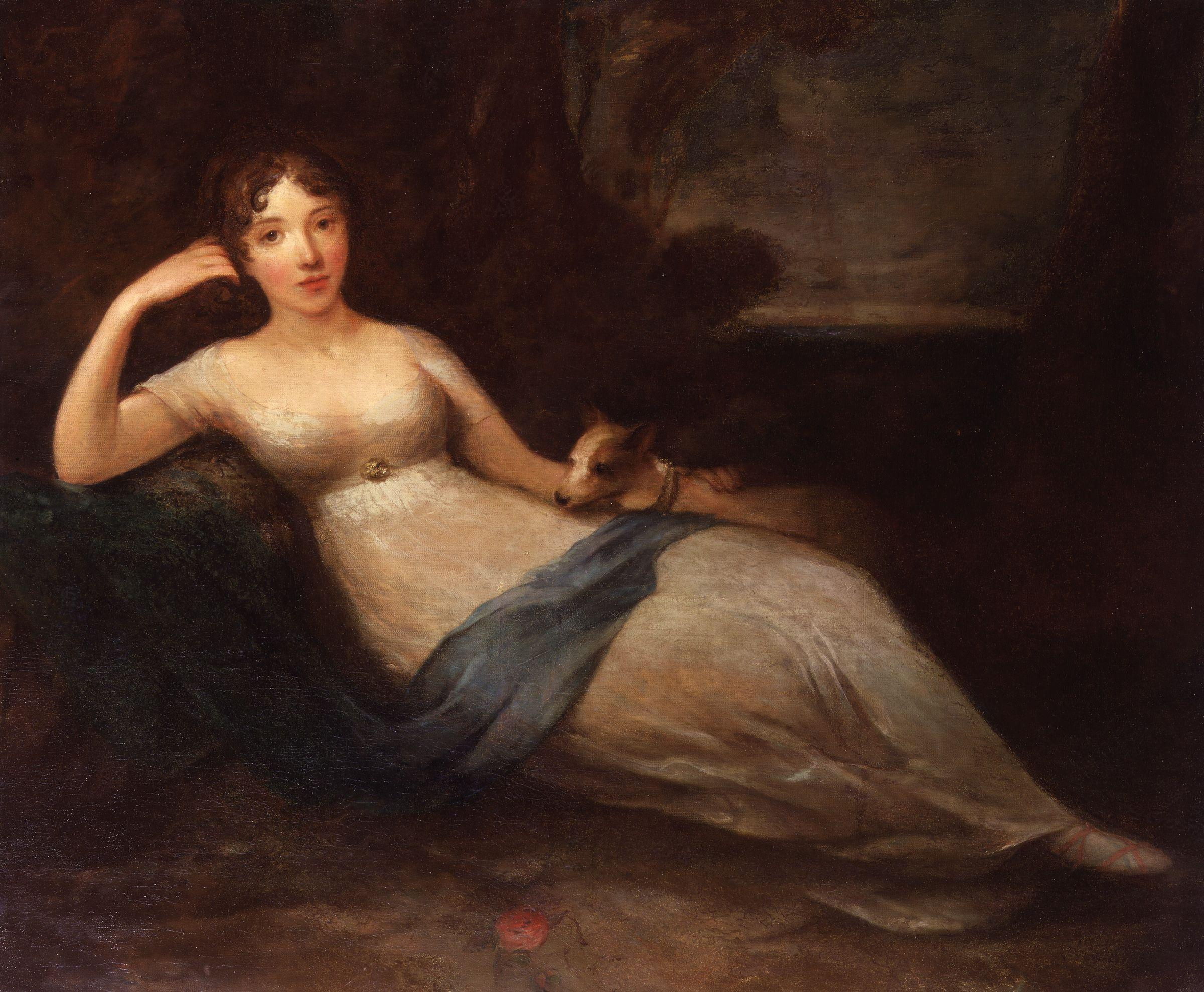 Lady Caroline Lamb, by Eliza H. Trotter (floruit 1811-1814), given to the National Portrait Gallery, London in 1946. All images in this batch have a known author with unknown death date, but according to the NPG's website the author was floruit (known to be active) prior to 1859, and so is reasonably presumed dead by 1939.